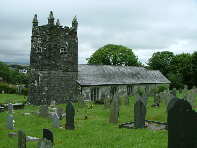 St Werburgh's Church, Warbstow. Dated 1601, restored 1861.